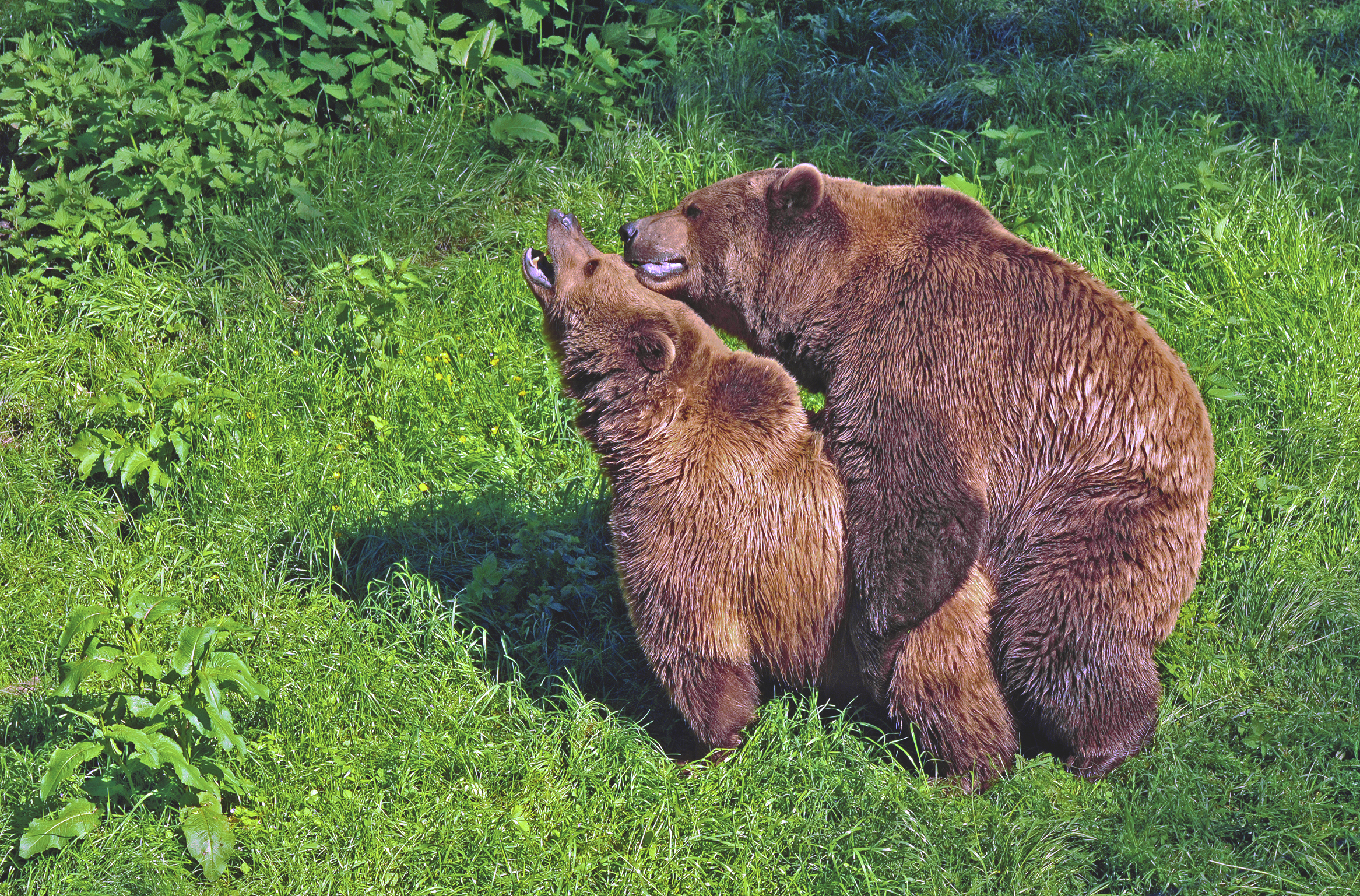 Copulating pair of Brown Bears in the Wisentgehege Springe game park near Springe, Hanover, Germany